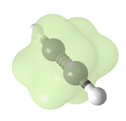 Acetylene (ethyne) - 3D model with p orbitals.